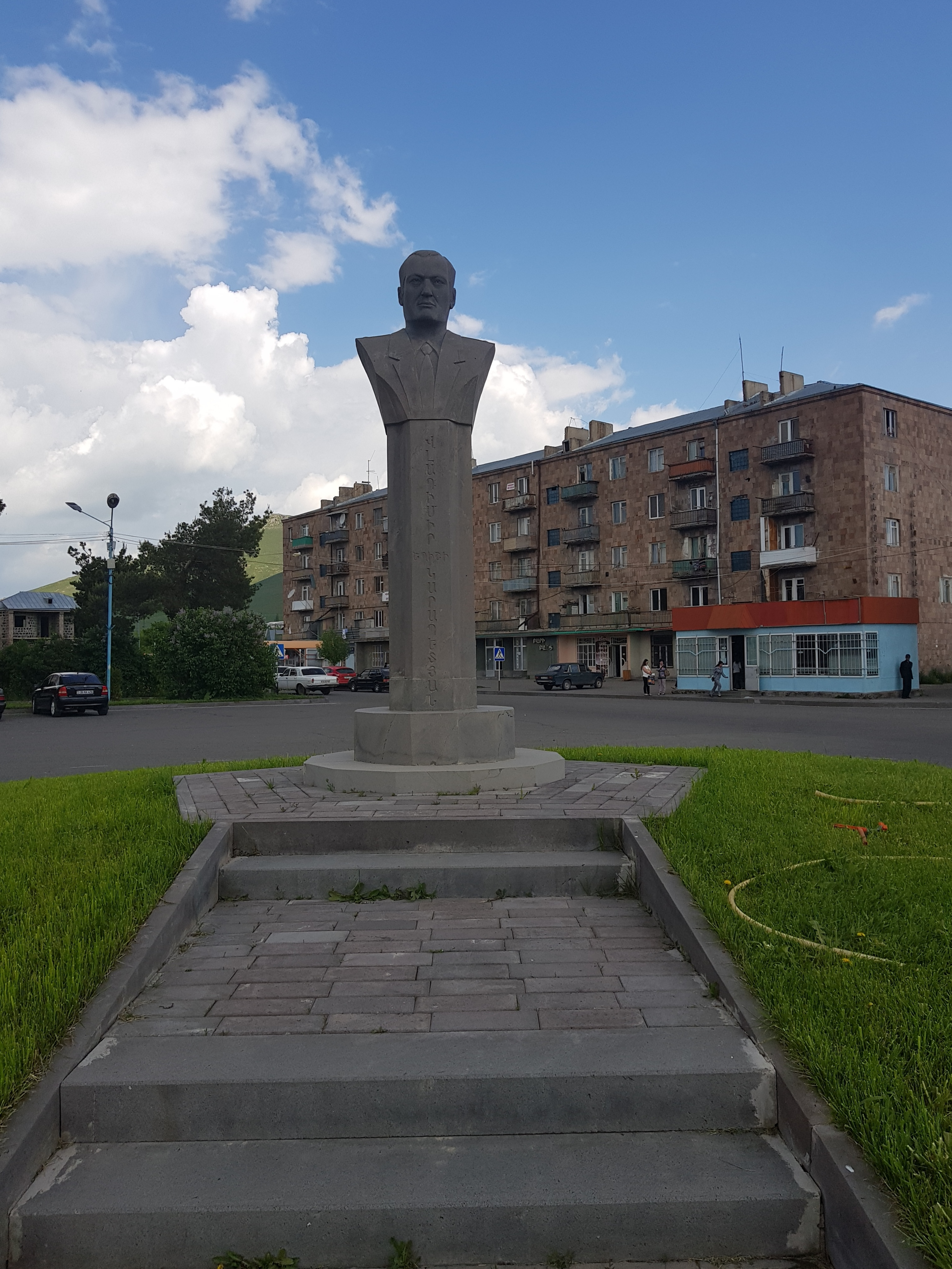 Monument to Vladimir Karapetyan in Sevan on the square named after Vladimir Karapetyan